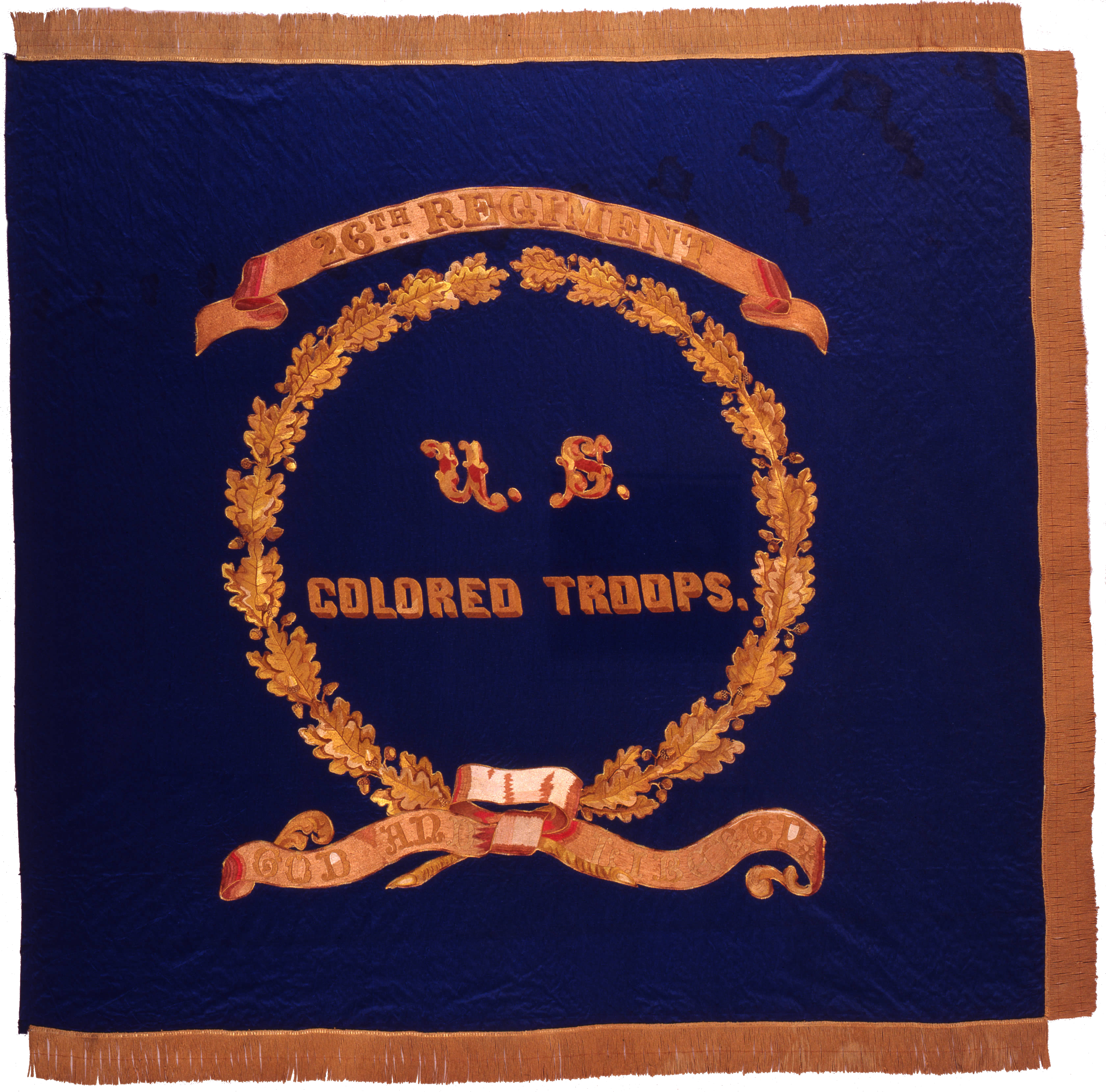 This is an image of the regimental colors carried by the 26th Regiment, US Colored Troops, organized at Riker's Island, New York City, to fight in the U.S. Civil War. Organized Feb. 26, 1864. Mustered out Aug. 28, 1865. The source is an agency of the government.